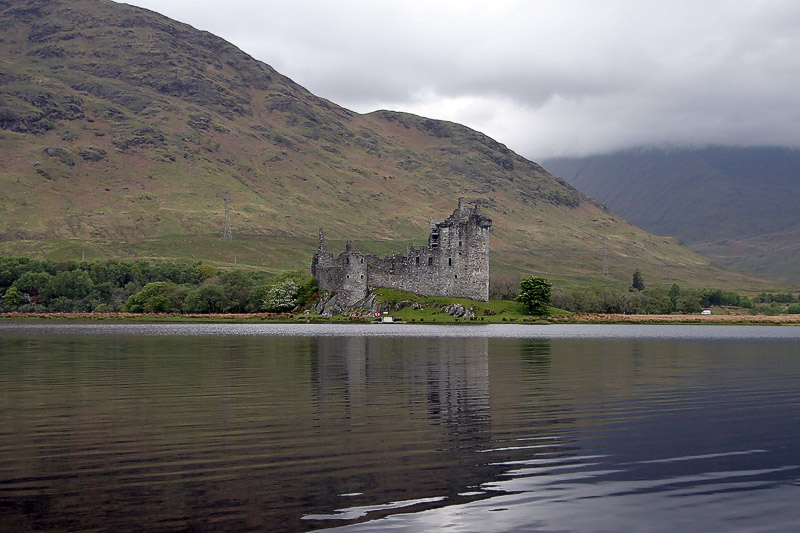 Kilchurn Castle in Scotland.